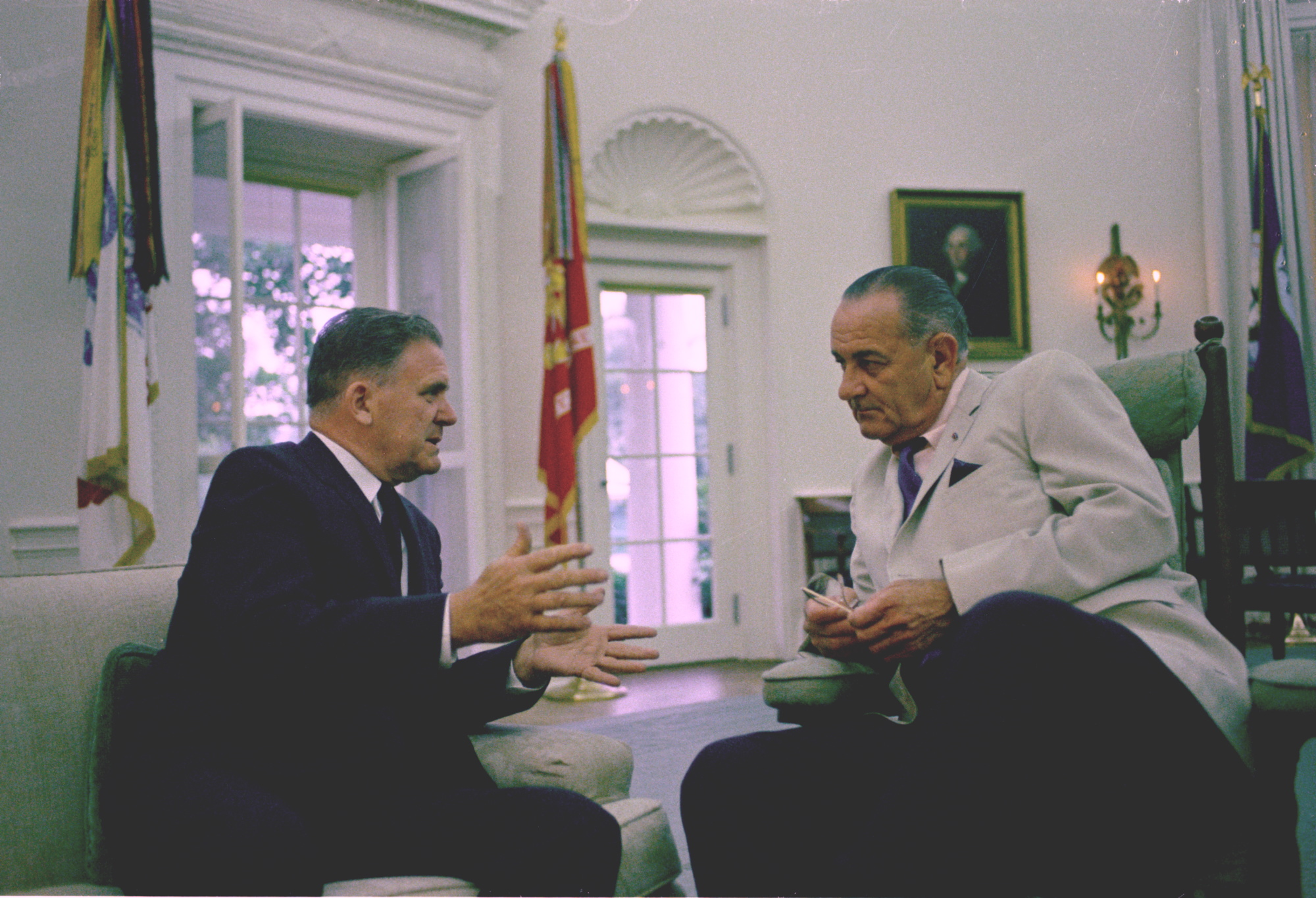 President Lyndon B. Johnson talking with NASA Administrator James E. Webb in the Oval Office